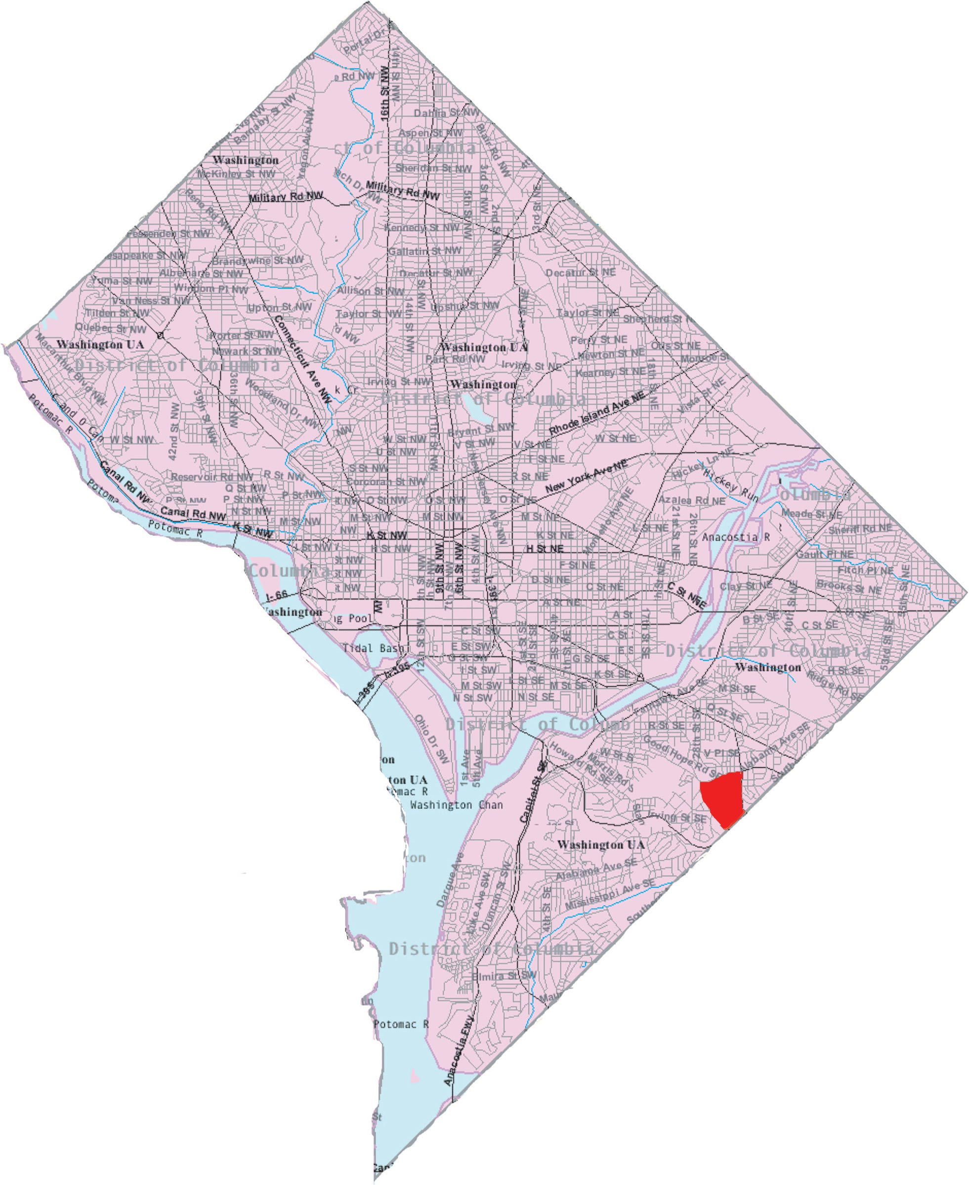 This image is a modified version of a self-generated reference map from the U.S. Census Bureau's American Factfinder at by Wikipedia user Msclguru.